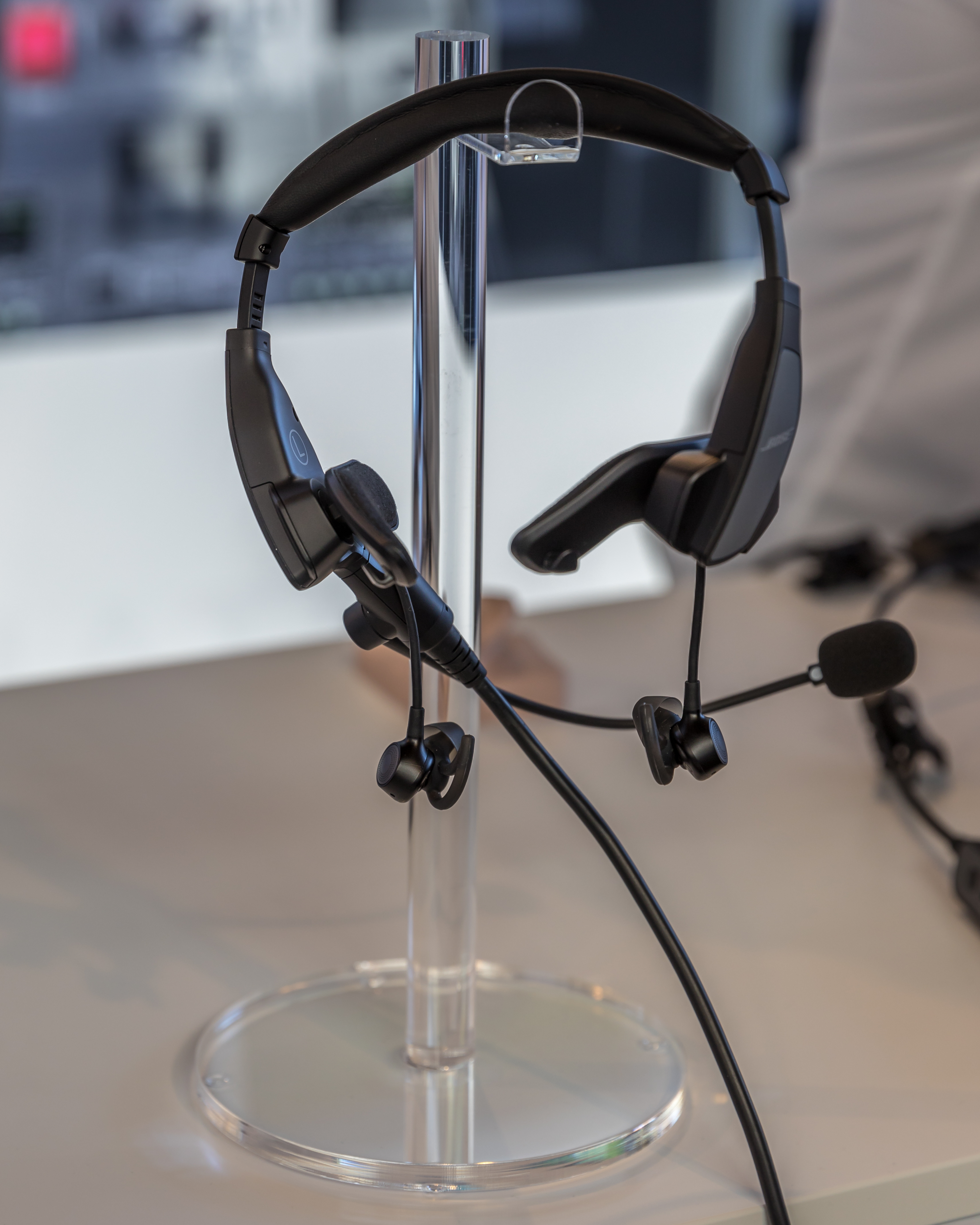 Bose ProFlight Aviation Headset, AERO Friedrichshafen 2018